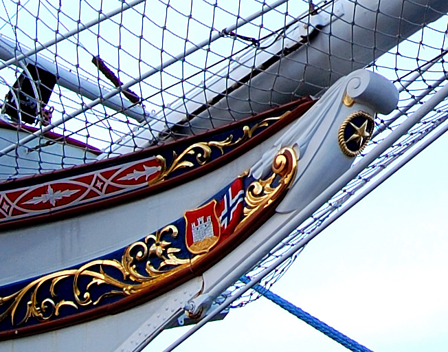 Billet head of the Norwegian tall ship Statsraad Lehmkuhl in Bergen, Norway